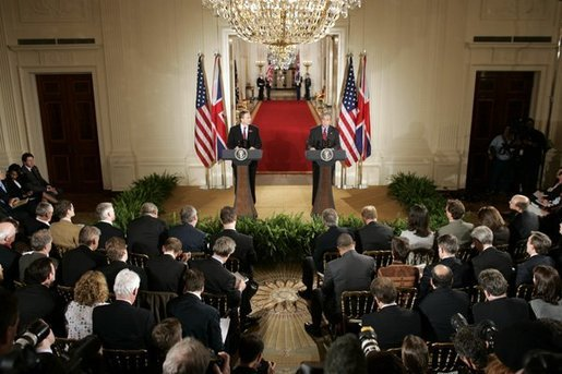 President George W. Bush and British Prime Minister Tony Blair during their press conference in the East Room of the White House on Friday 12 November 2004.